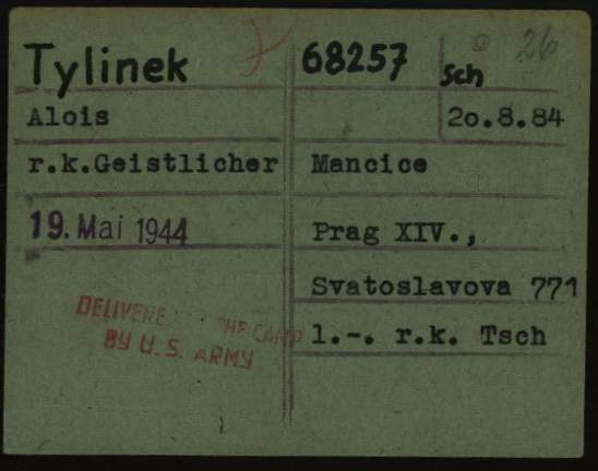 Registration card of Alois Tylínek as a prisoner at Dachau Nazi Concentration Camp. Red stamp means he was liberated from Dachau by the U. S. Army.